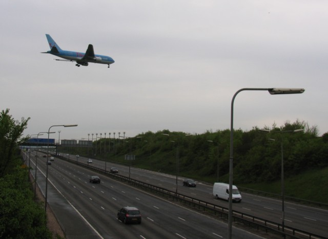 Site of Kegworth aeroplane disaster. At the time of the Kegworth air crash the motorway was less wide. The aircraft came down into the motorway cutting and disintegrated on the embankment.